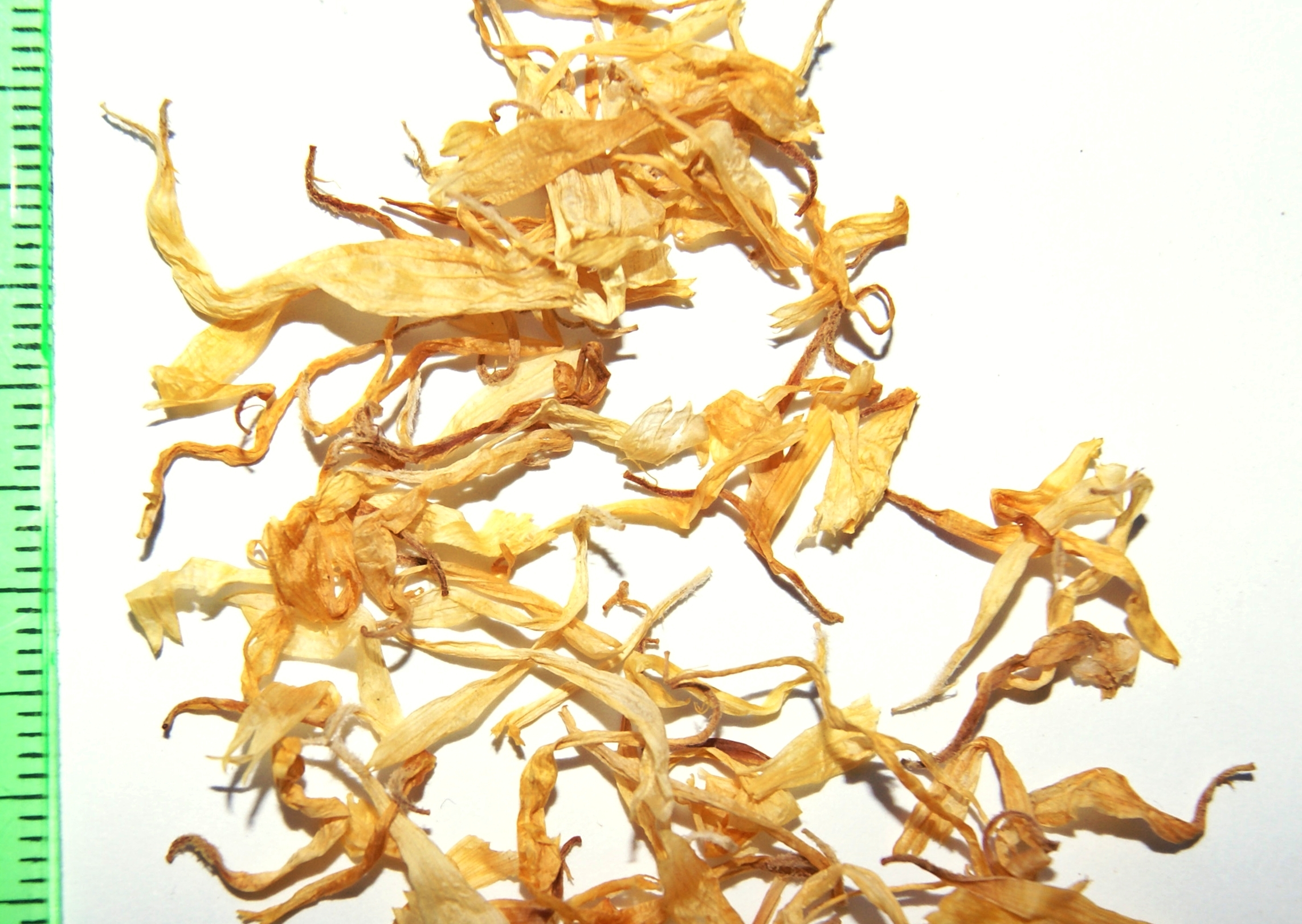 Calendula officinalis